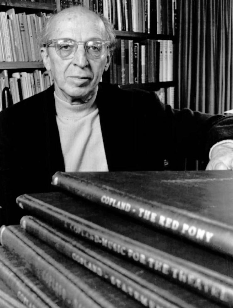 Photo of composer Aaron Copland from the CBS television/New York Philharmonic "Young Peoples' Concerts" series.